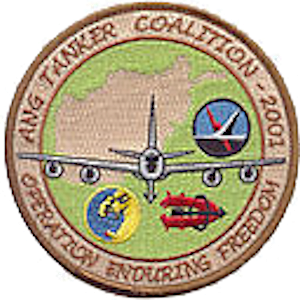 Emblem of the 128th Air Expeditionary Group